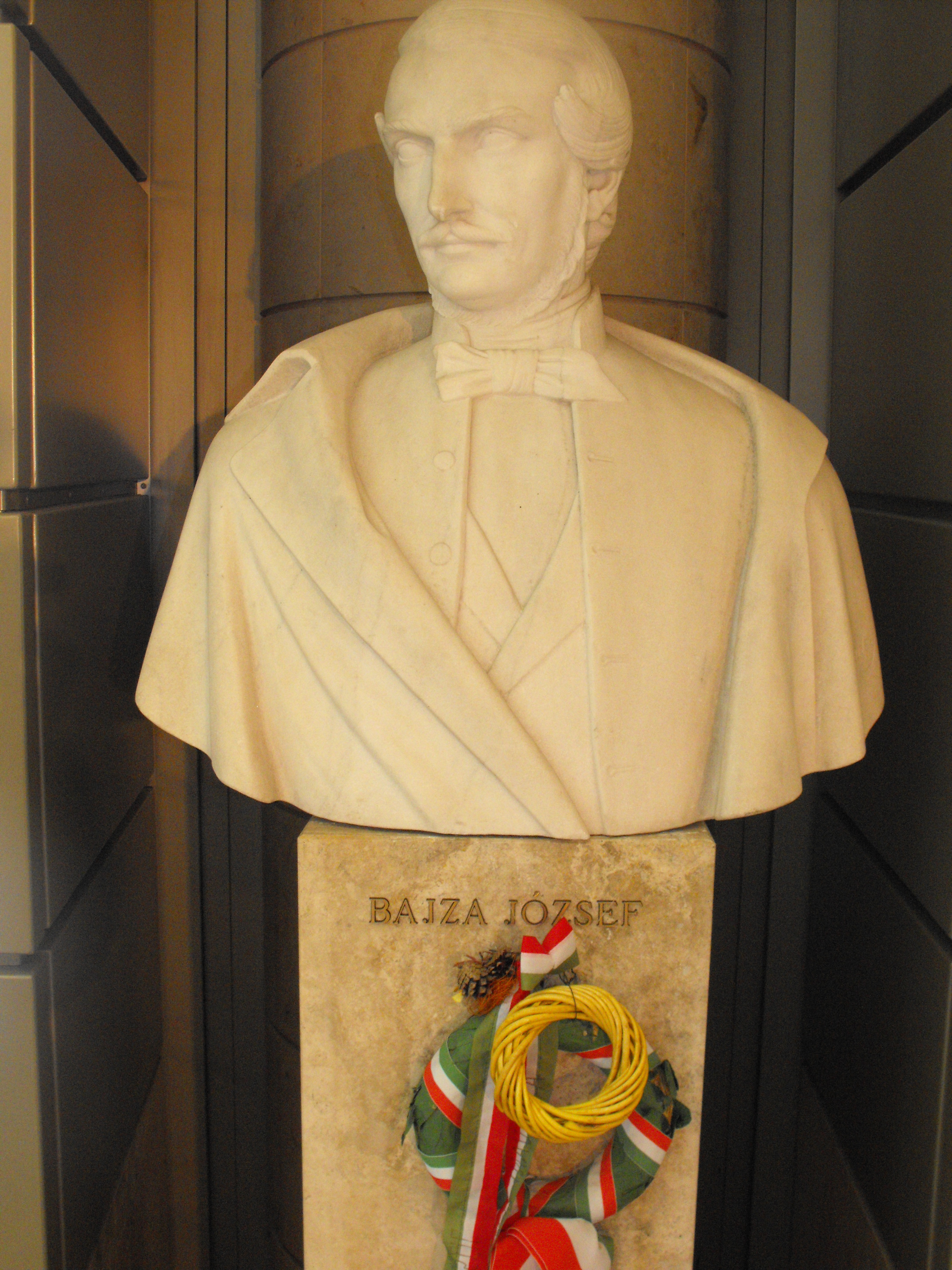 Statue of the Hungarian poet and theatre director József Bajza, in the National Theatre, Budapest, Hungary.